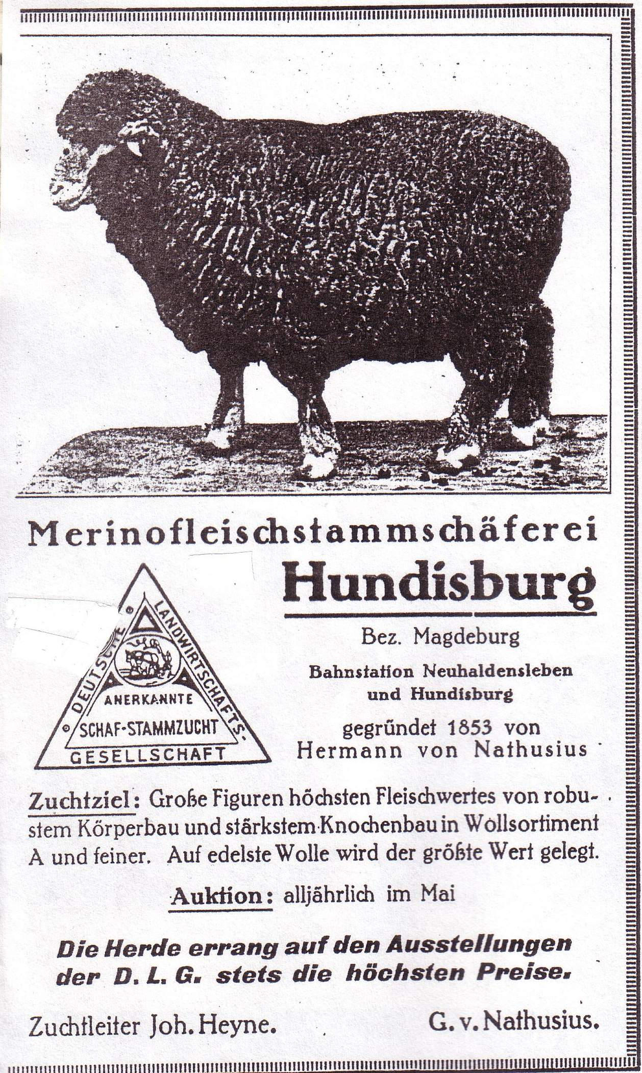 kind of an old advertisement for sheeps